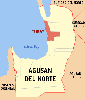 Map of the Agusan del Norte showing the location of Tubay